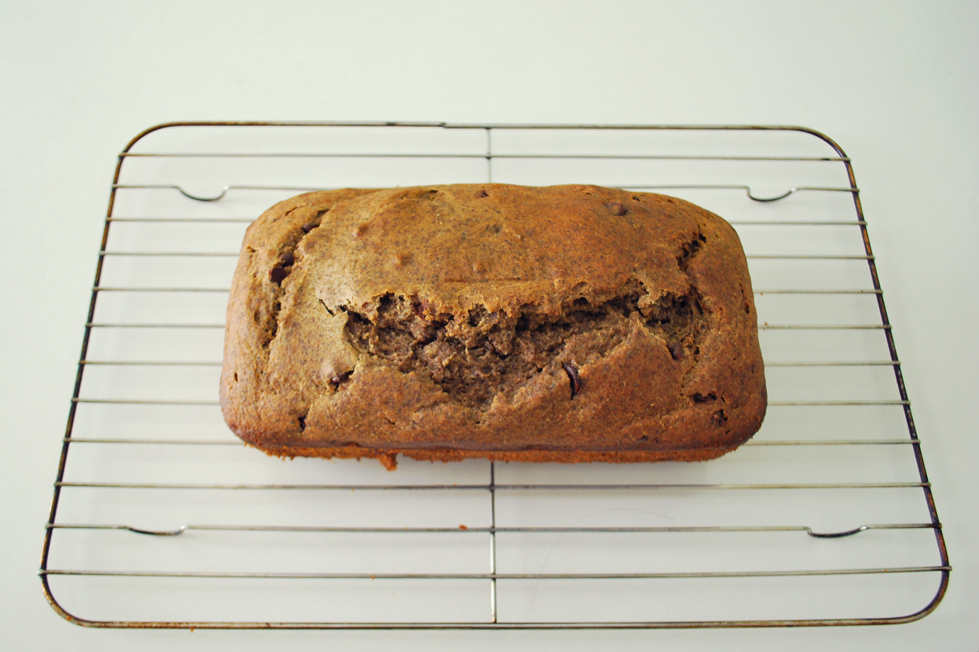 Buckwheat banana bread.